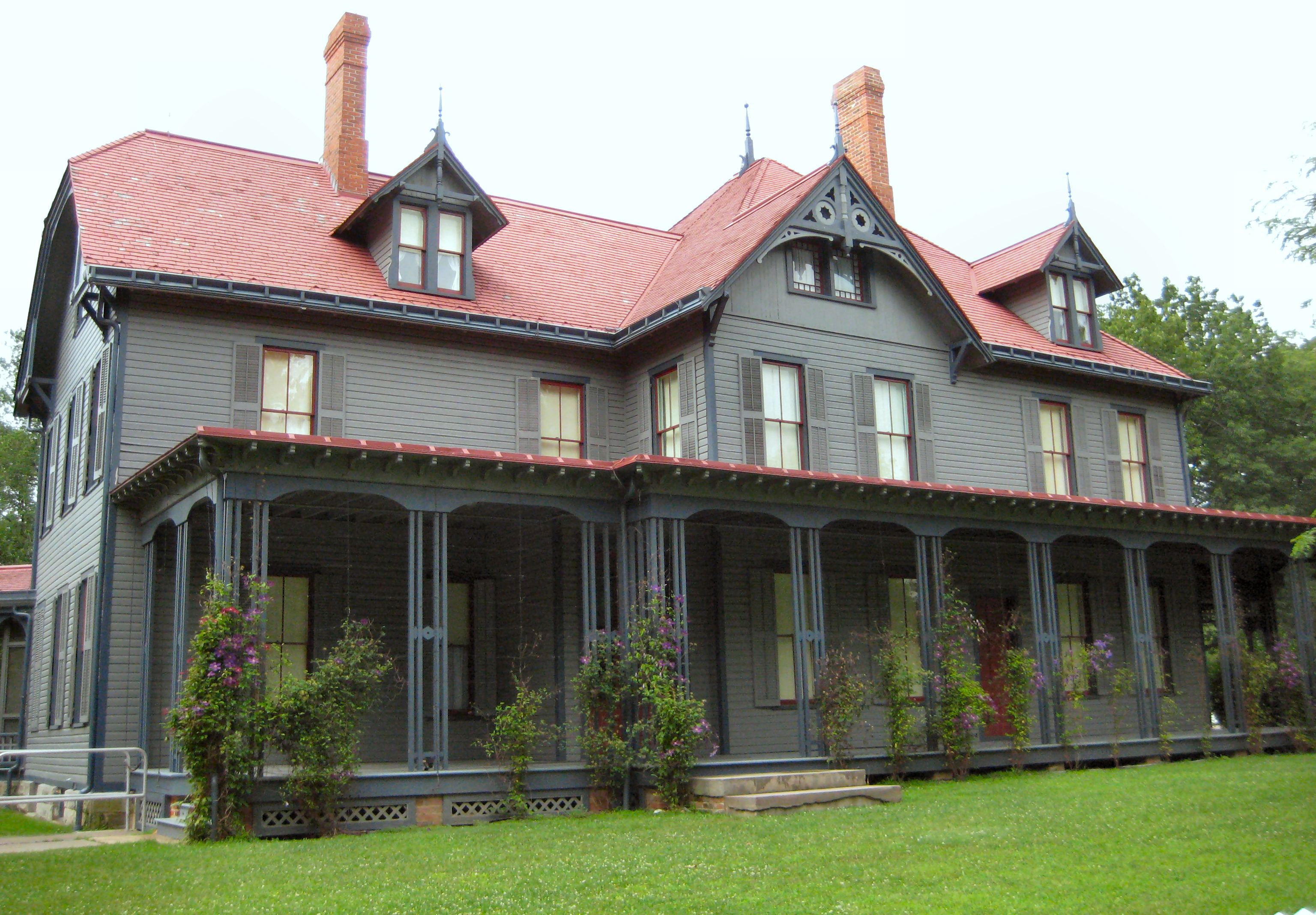 Garfield National Historic Site. President Garfield's summer home in Mentor, Ohio, Mentor.